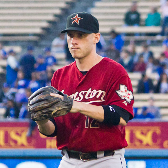 Clint Barmes